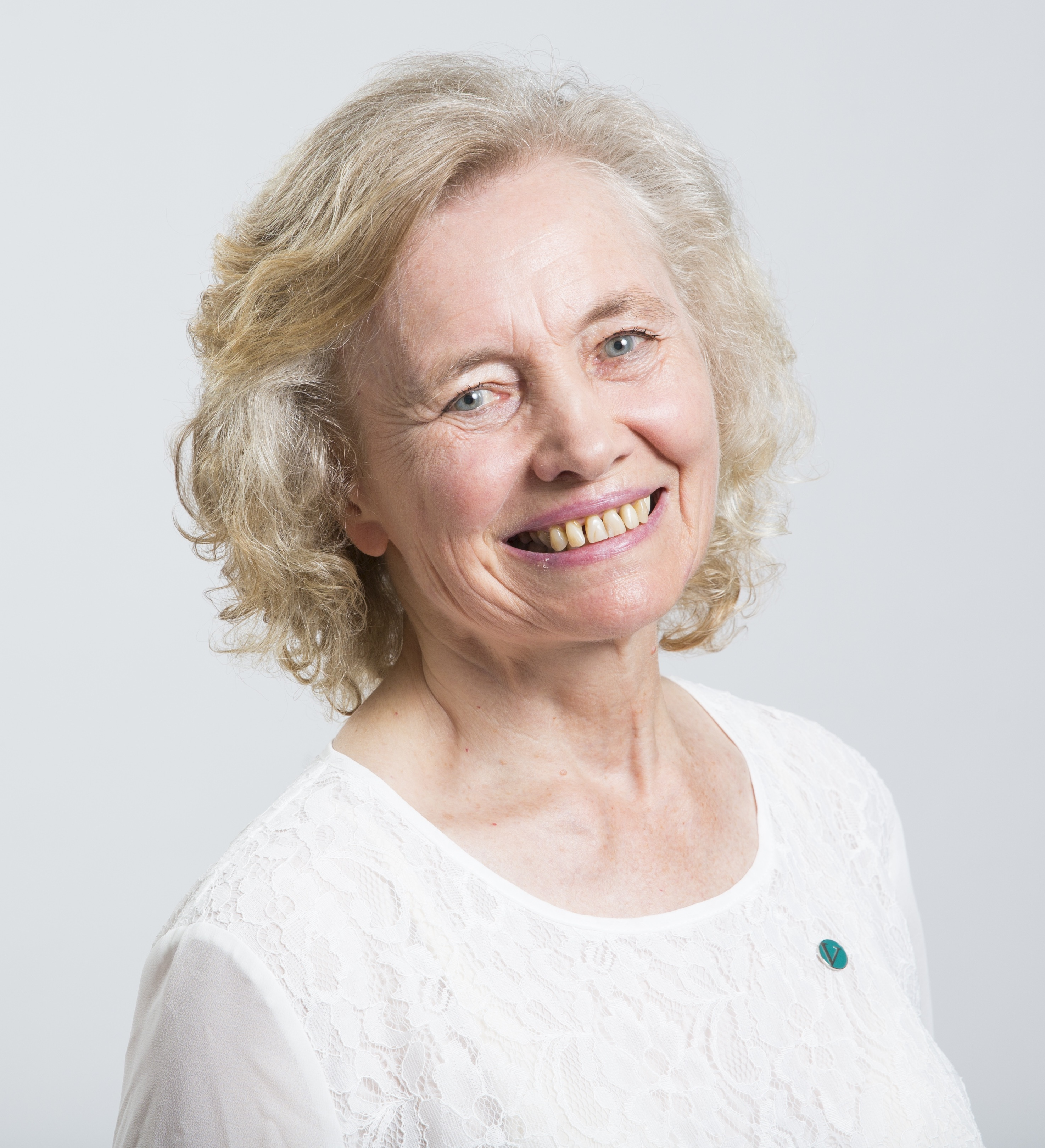 Berit Kvæven, Norwegian politician for the Liberal Party (Venstre)